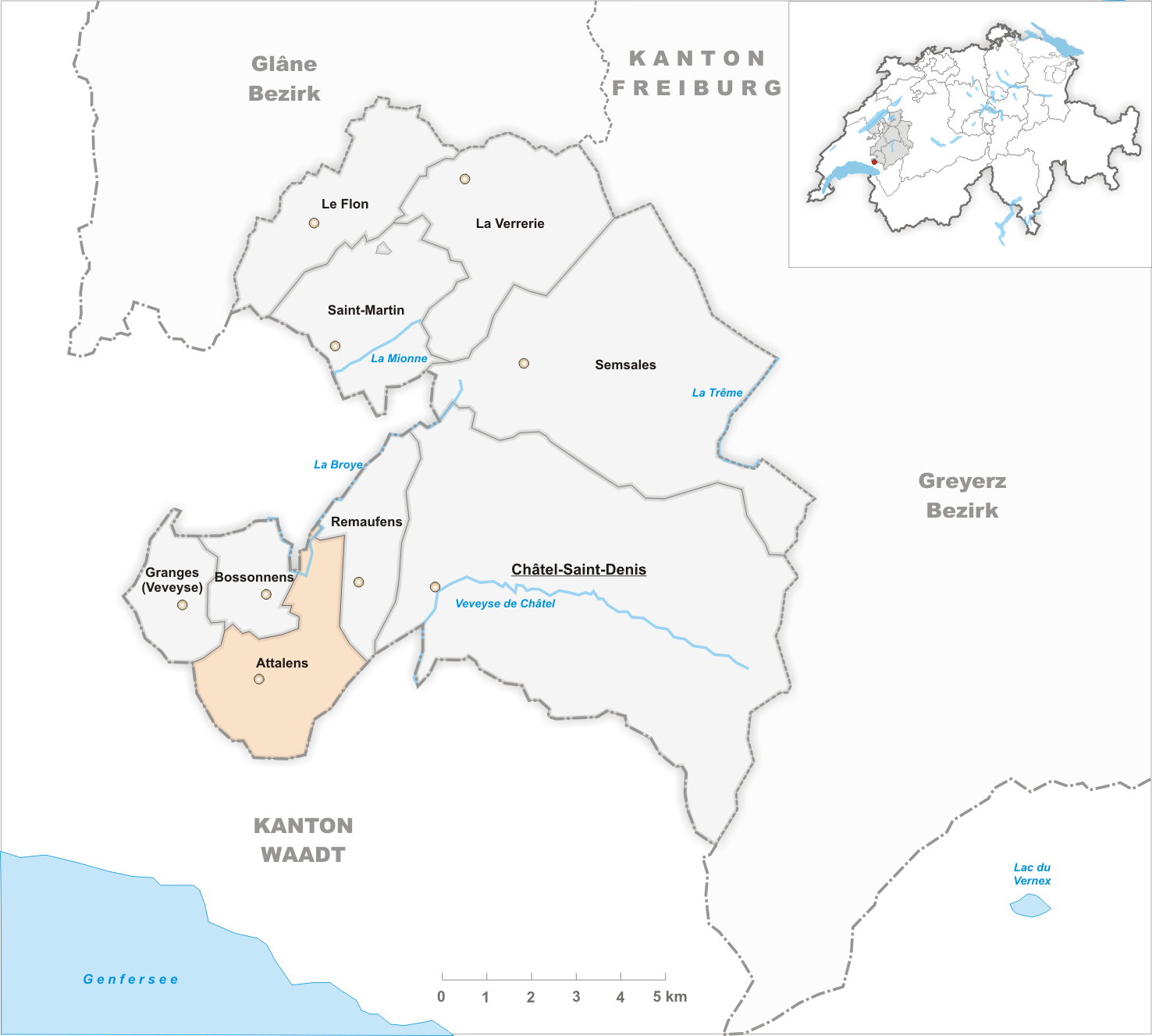 Municipality Attalens